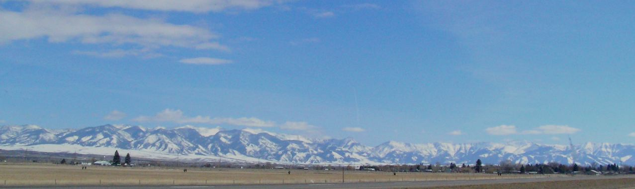 Bridger Mountain Range, Gallatin County, Montana